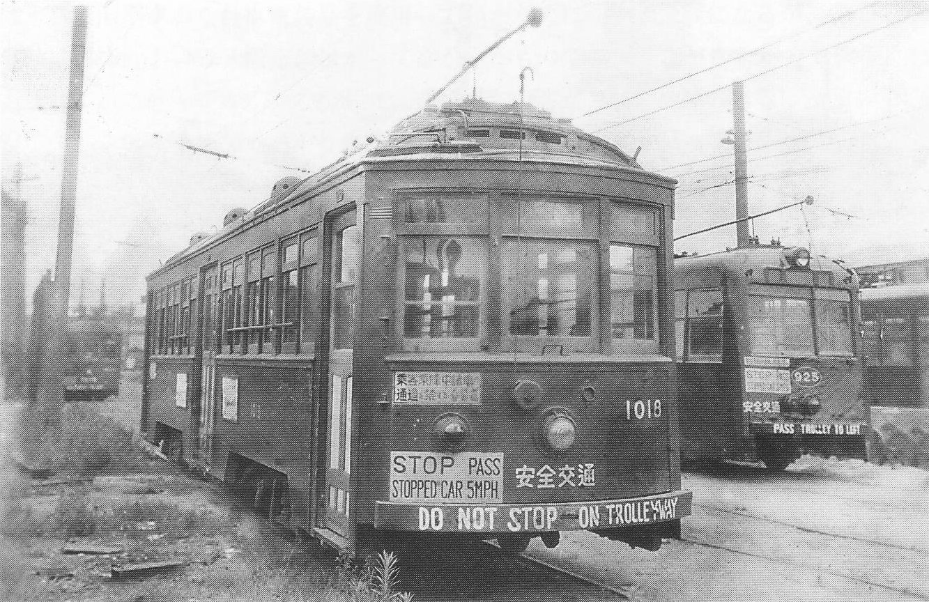 Osaka City Tram 1018.